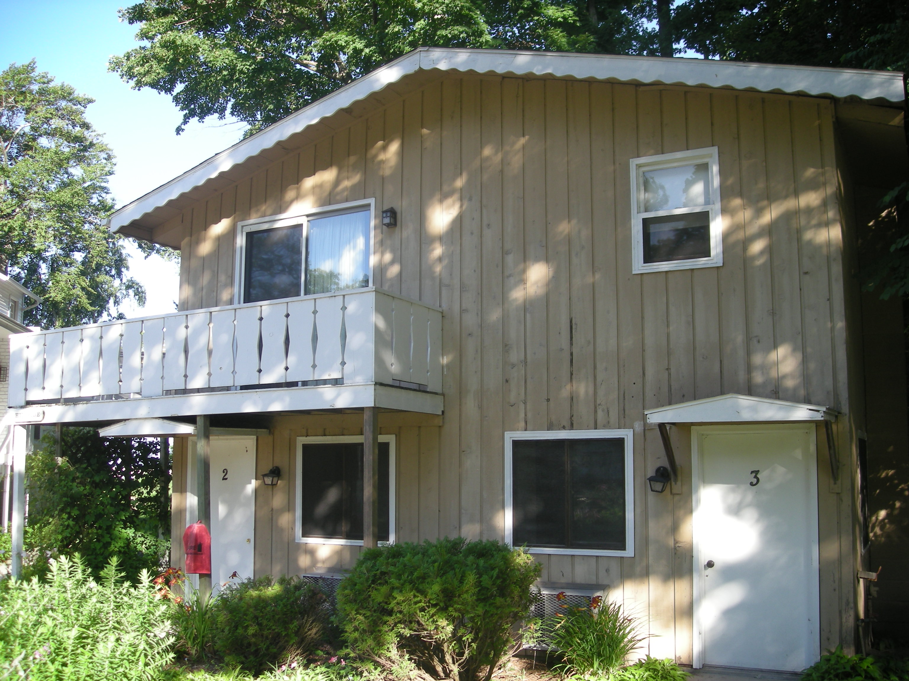 The exterior of Hillside at Michillinda Lodge in Whitehall, Michigan (United States).